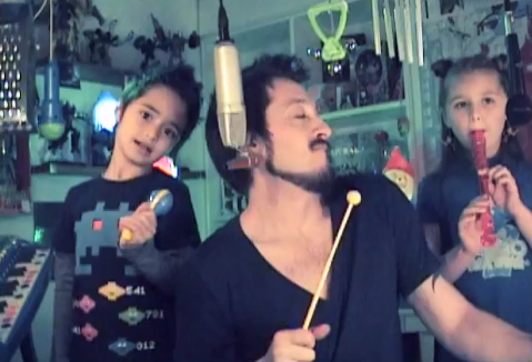 Dicken Schrader featuring his kids Milah and Korben performing Depeche Mode's "Everything Counts"